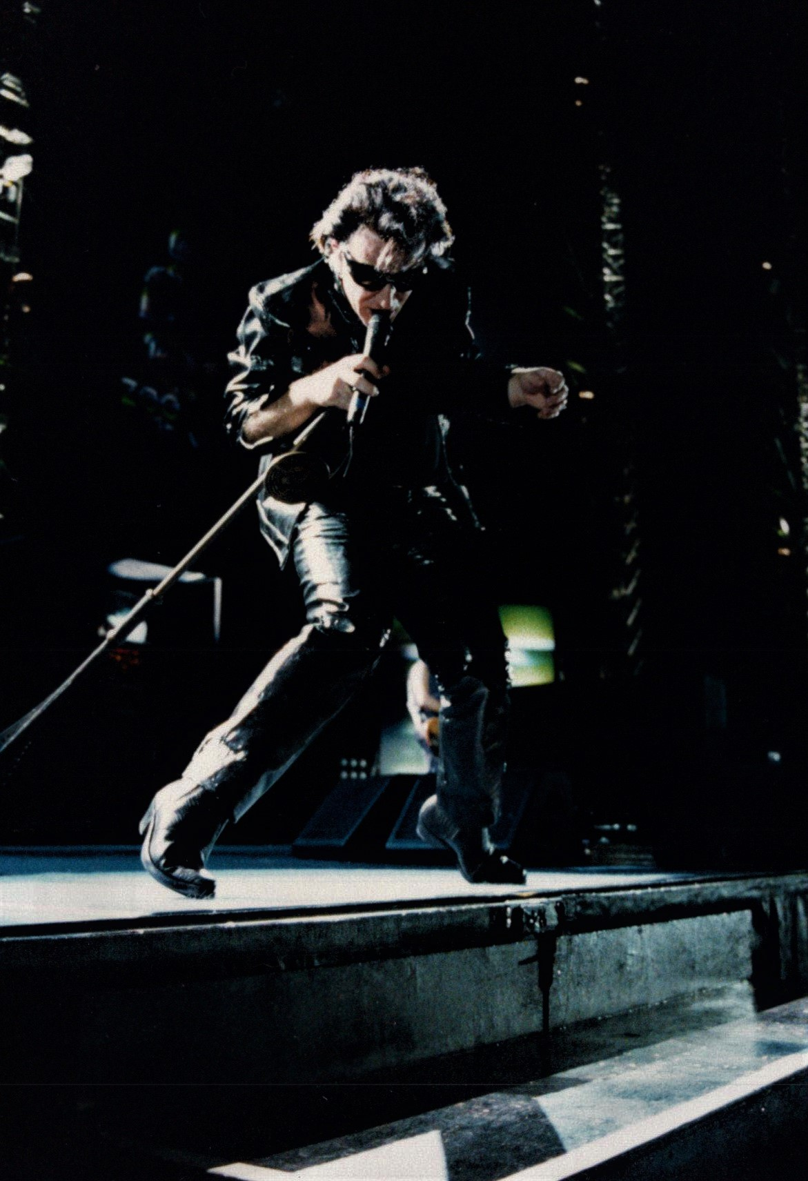 Bono of the Irish rock band U2 performing on November 13, 1993, at the Melbourne Cricket Ground in Melbourne, Australia, on their Zoo TV Tour